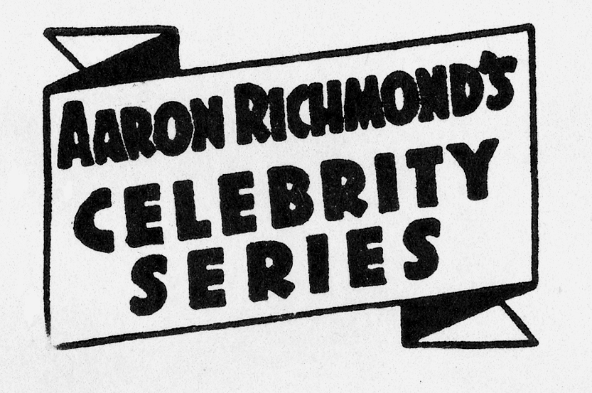 Original logo for the Aaron Richmond Celebrity Series [Celebrity Series of Boston] founded in 1938. Designed in 1938 by unknown.